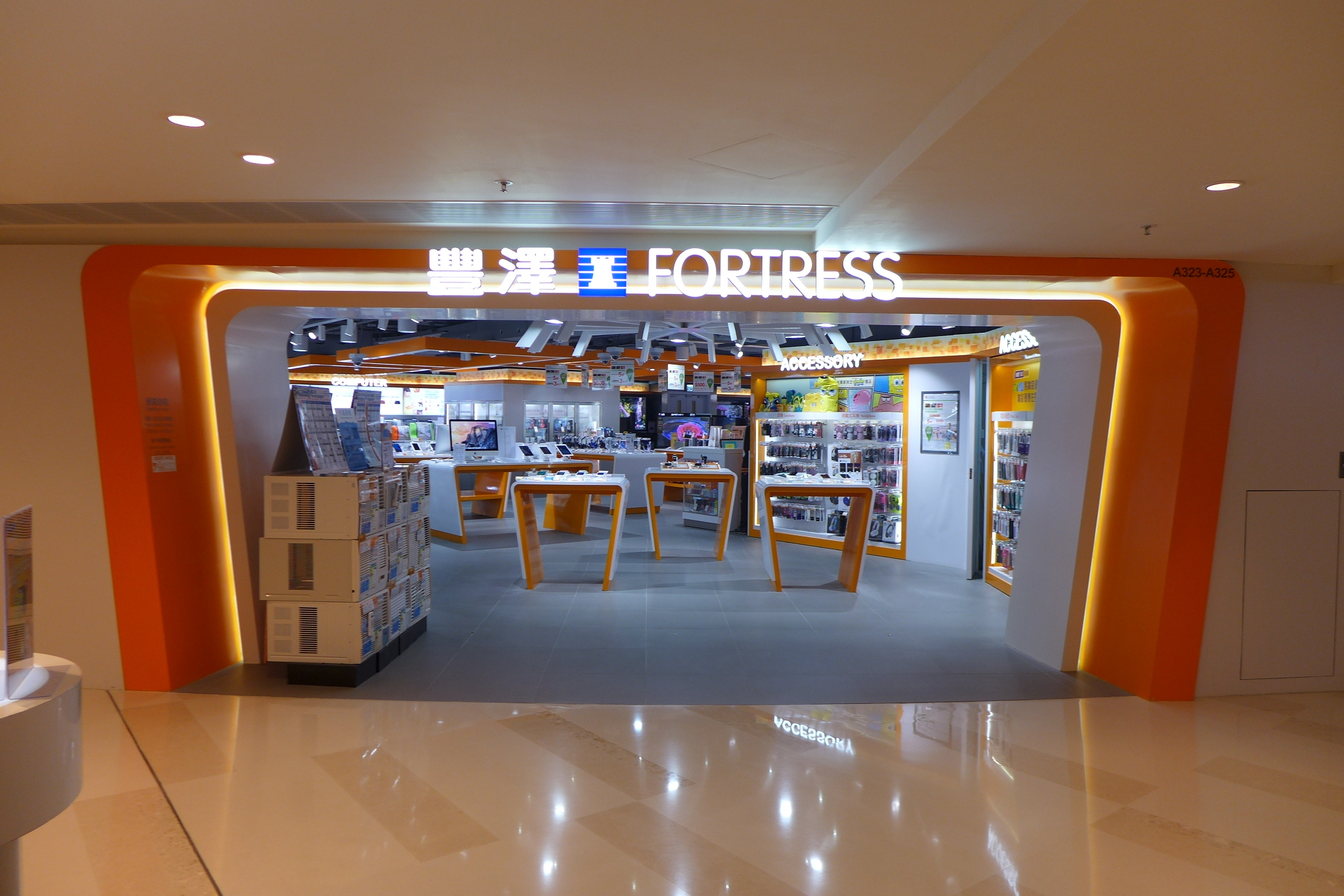 Fortess in YOHO Mall